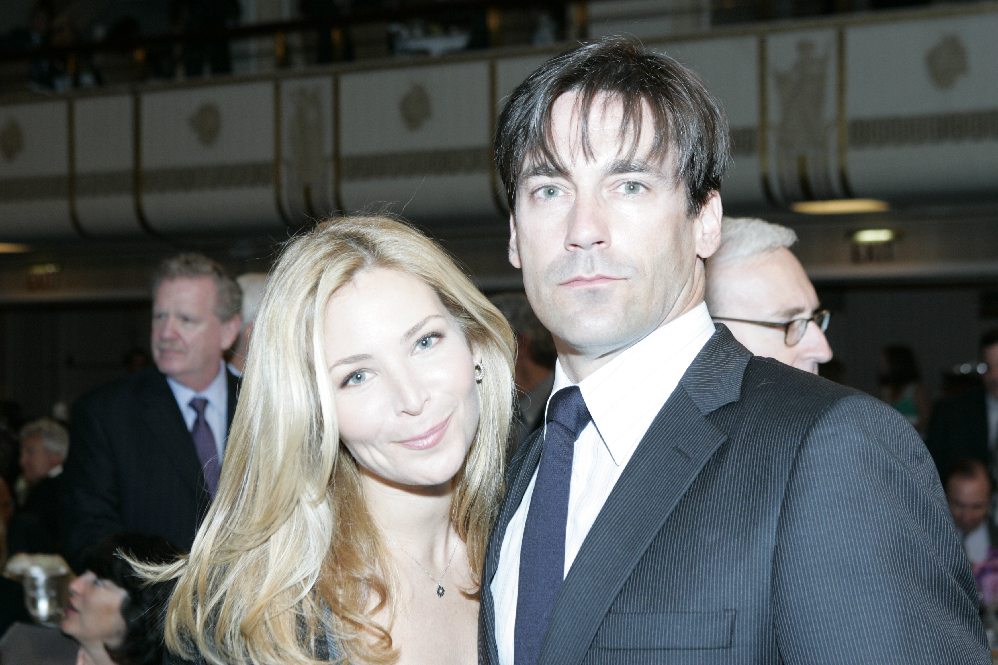 Jennifer Westfeldt and Jon Hamm 67th Annual Peabody Awards Luncheon Waldorf=Astoria Hotel New York, NY USA June 16, 2008